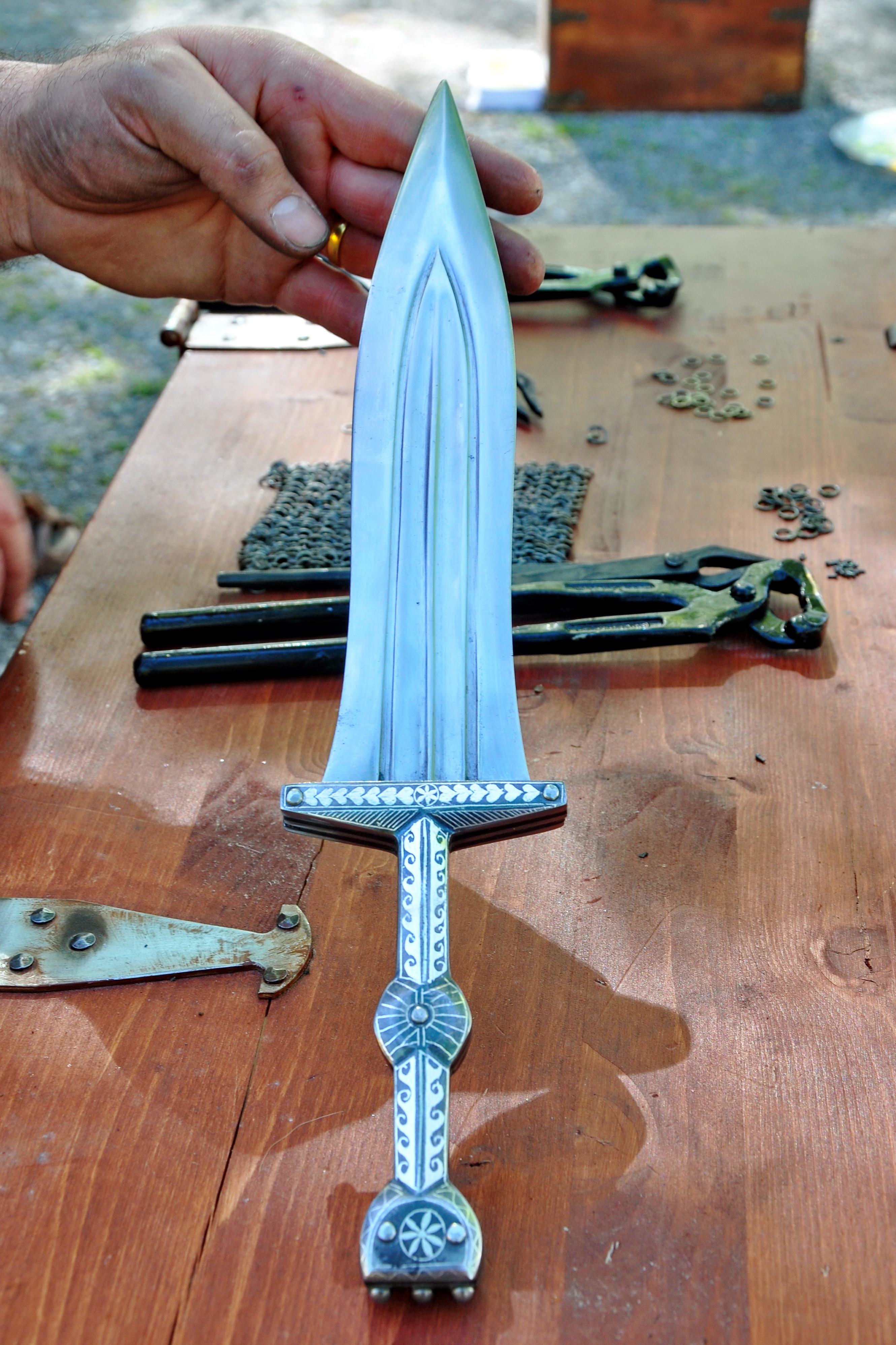 Legio XXI Rapax, 'guests' on Lindenhof plaza respectively Pfalzgasse in Zürich (Switzerland) on Friday-Monday before Sechseläuten in April 2011